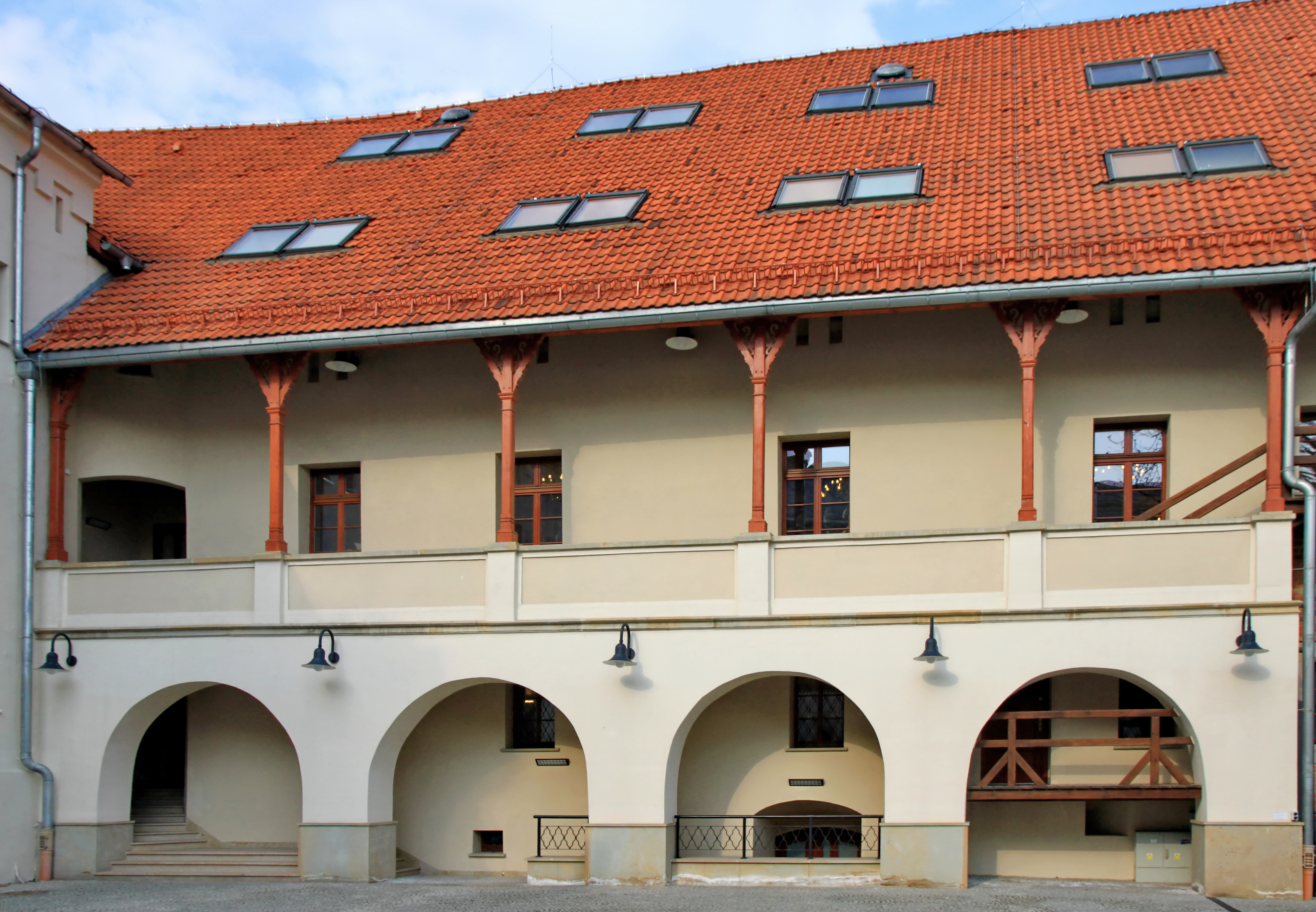 Racibórz, castle, build in 13th/14th century